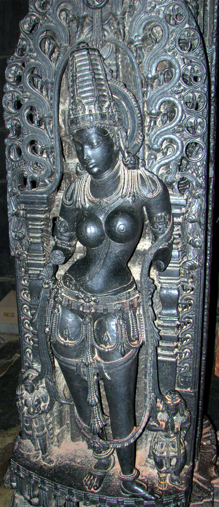 Mohini avatara of Vishnu